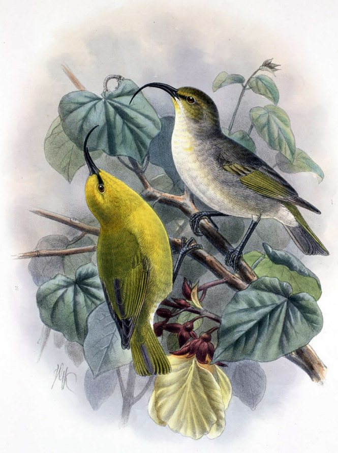 Illustration showing Heterorhynchus hanapepe Which is now a synonym of the KAUA'I NUKUPU'U (Hemignathus lucidus hanapepe) From Avifauna of Laysan By Lionel Walter Rothschild, 2nd Baron Rothschild (1868–1937) By John Gerrard Keulemans (1842-1912) (Dutch bird illustrator), which was issued from 1893-1900.